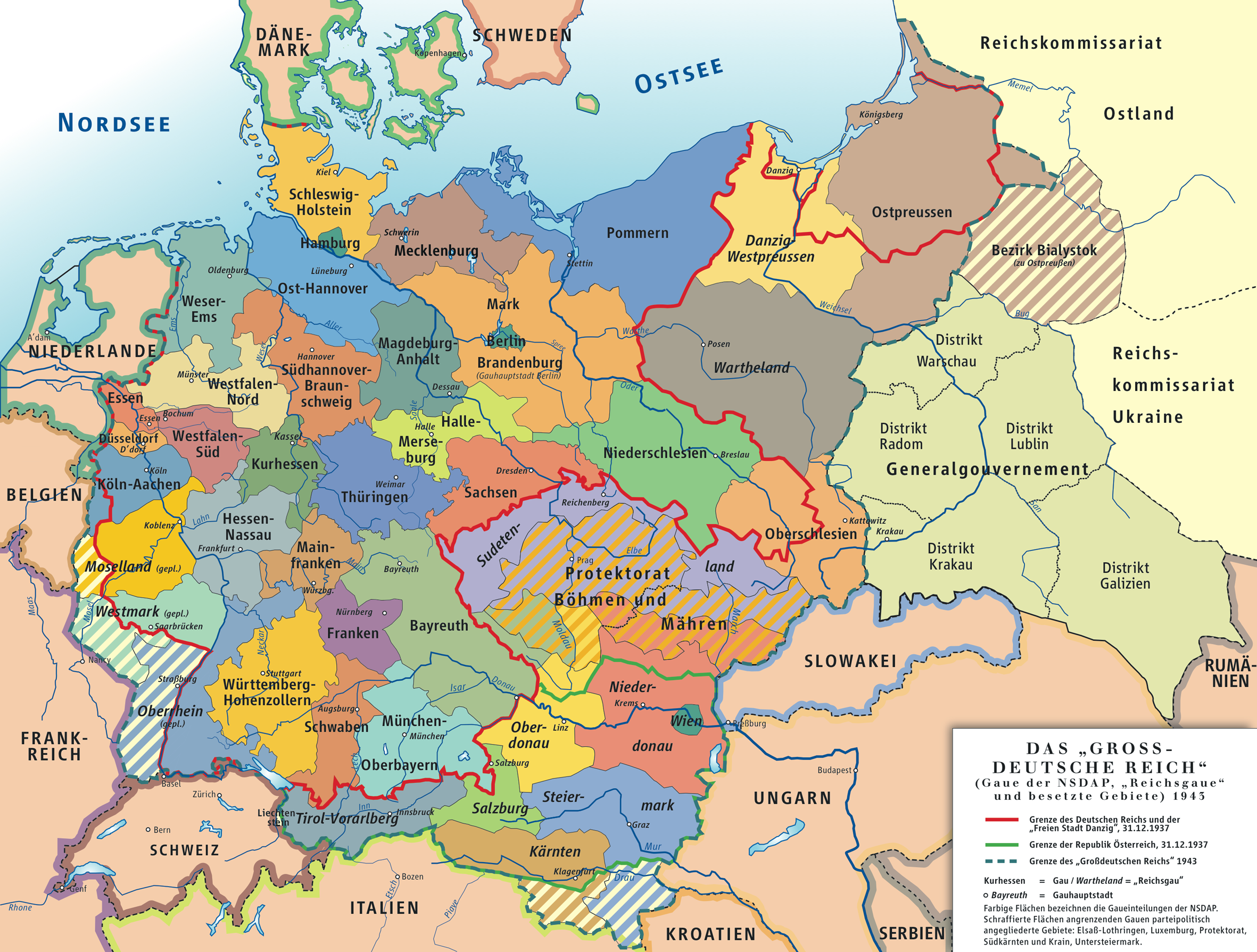 Map of »Großdeutsches Reich«/»Großdeutschland« ("Greater German Empire"/"Greater Germany") in 1943